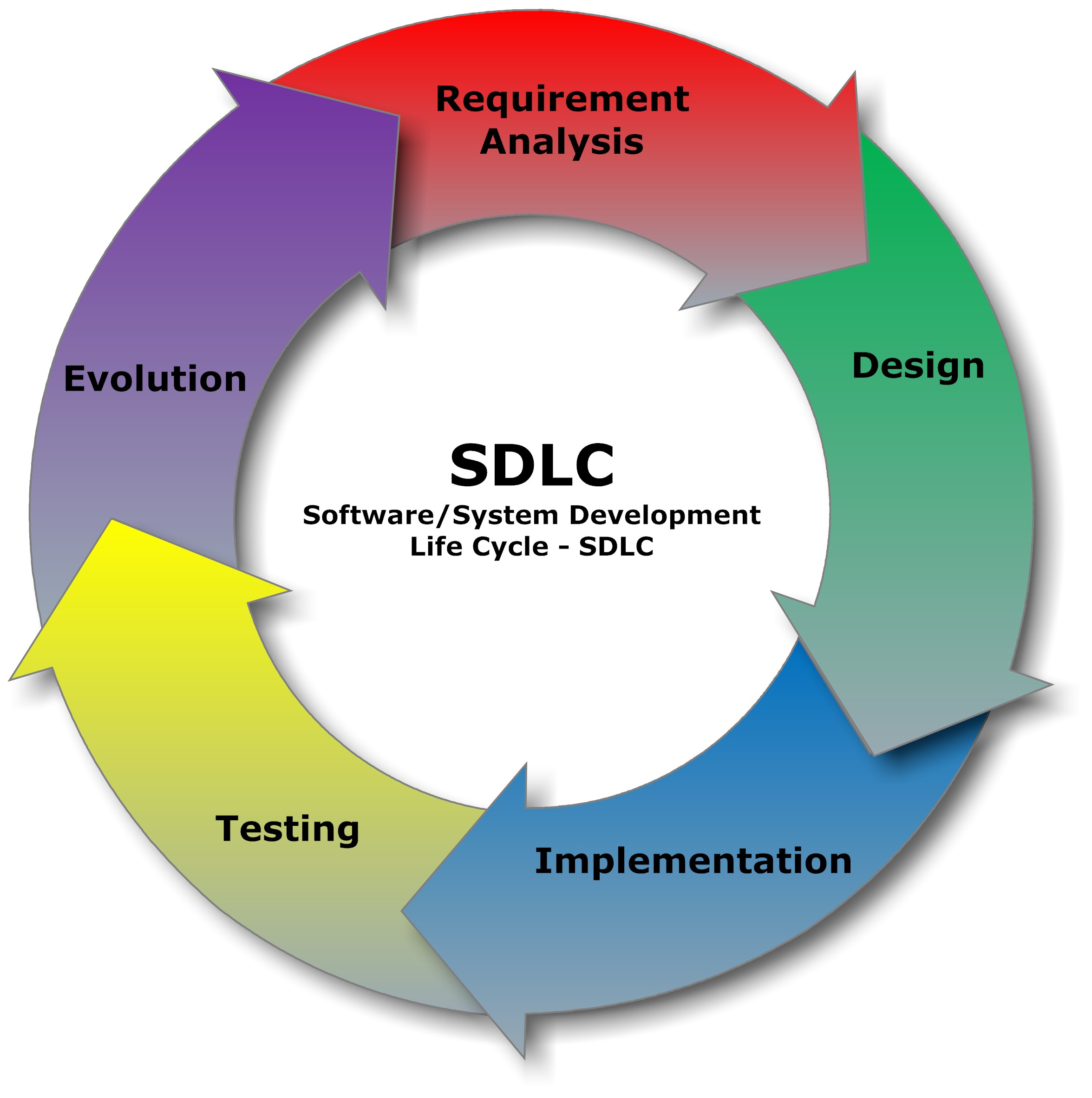 Software Processors A Software Process is a set of related activities that leads to the production of a software product. There are many different software processors, but all must include 5 activities that are fundamental to software engineering. 1. Software specification (Requirement Analysis – RA) 2. Software Design 3. Software Implementation (Coding) 4. Software Validation (Testing) 5. Software Evolution (Maintenance and further Development) 6. AMC The phases that are necessary to develop and maintain a software system is called “DATA STRUCTURE”. The steps are shown in the graph above.